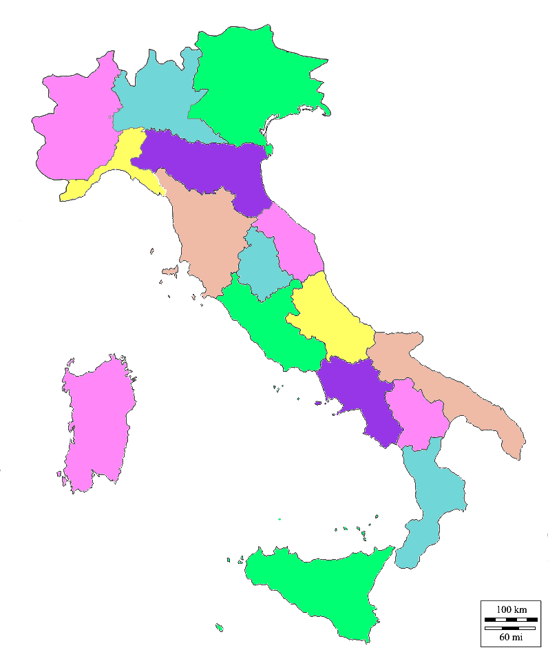 Map outline of 17 ecclesiastic regions of Italy